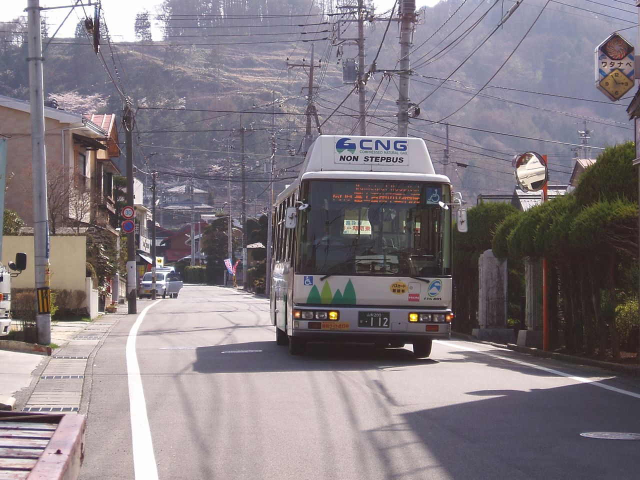 Nissan Diesel KK-RM252GAN (mod) for Fujikyu Yamanashi Bus F8162 "Evergreen Shuttle" in Fujiyoshida City